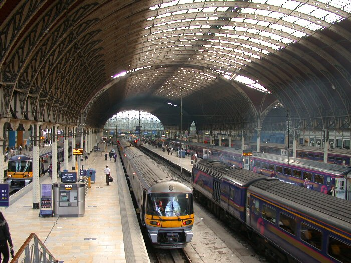 Central vault of London Paddington Station, October 2004.